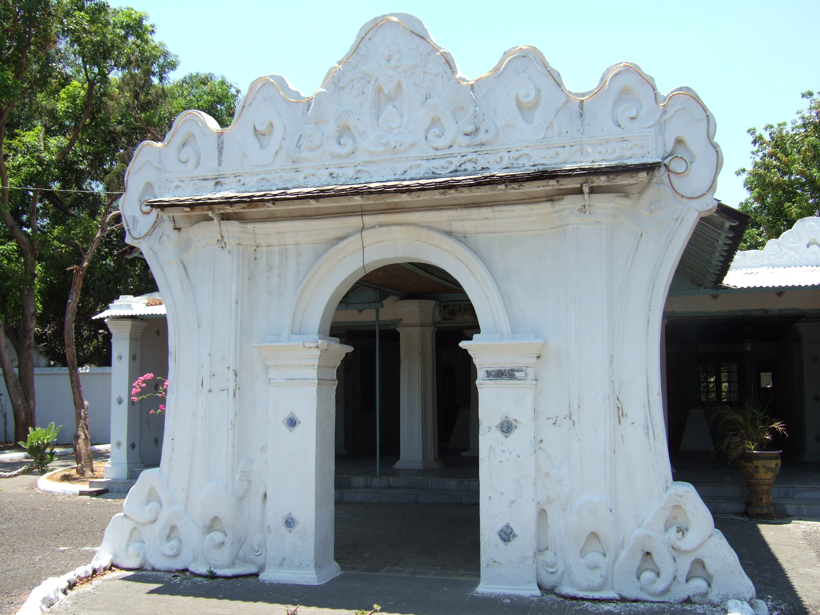 Gate at Keraton Kasepuhan, Cirebon, Indonesia